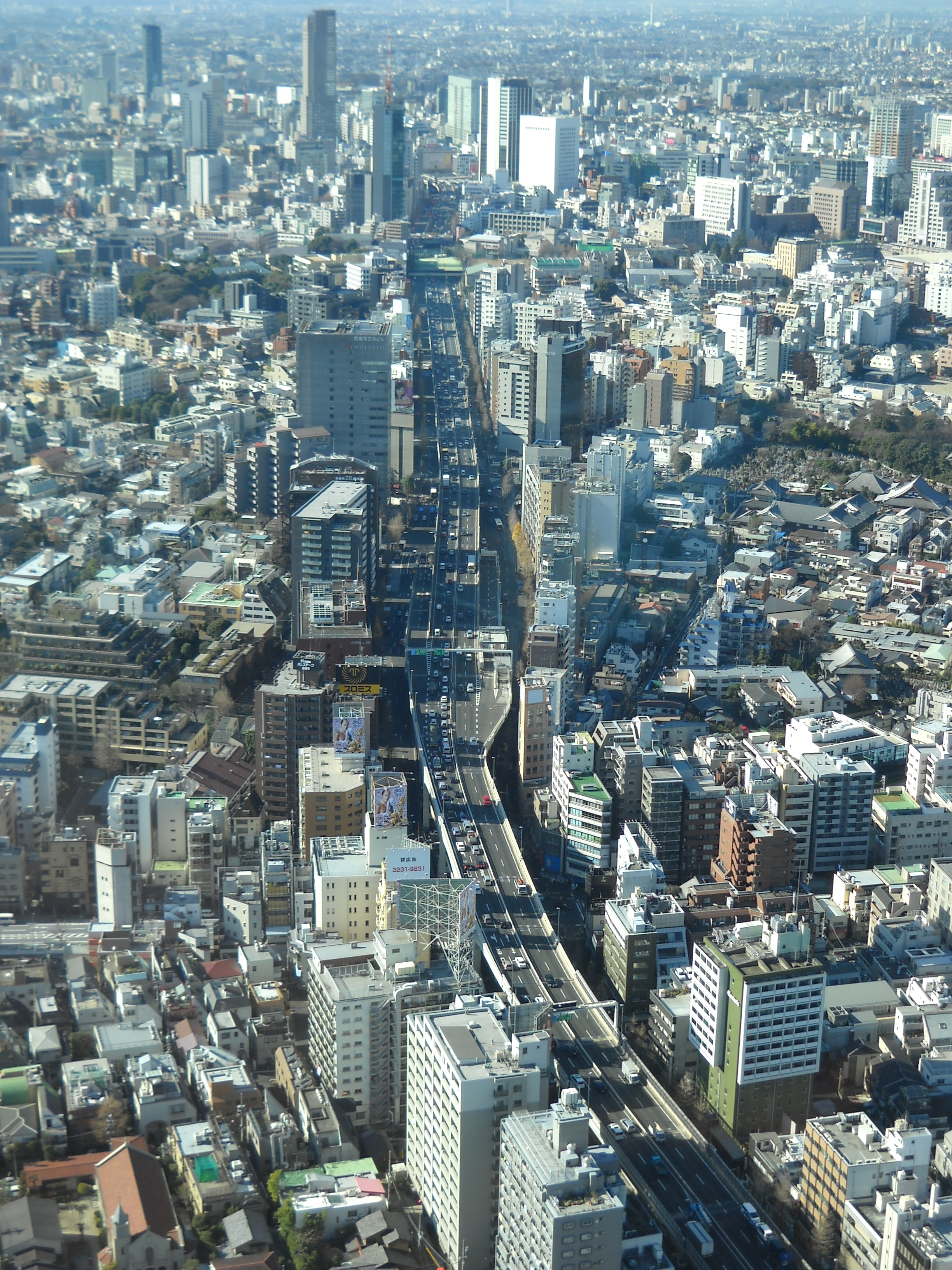 SHUTO EXPWY 3 Shibuya line, Tokyo, Japan